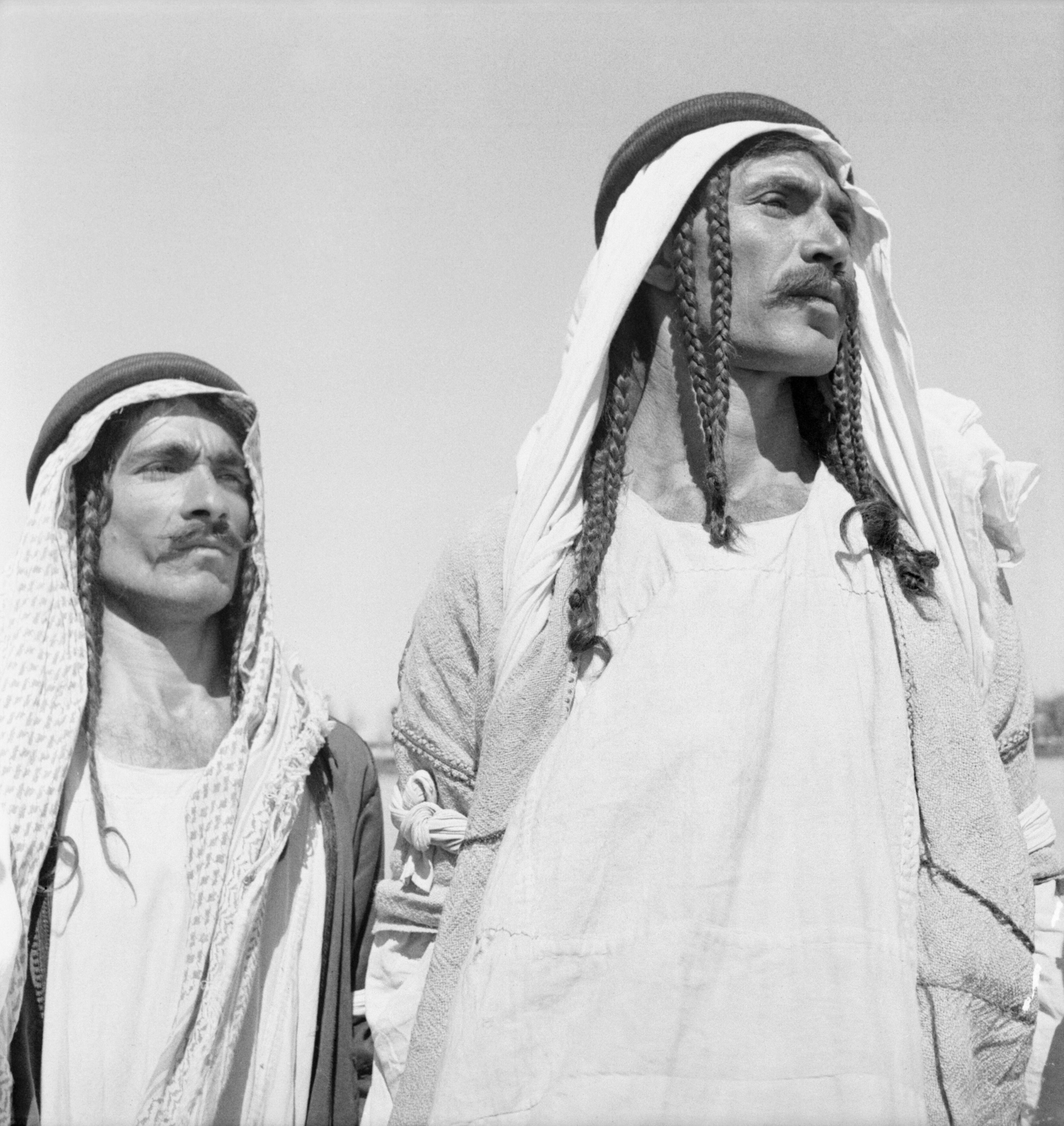 Cecil Beaton Photographs- General Travels in the Middle East 1942: Two Yezidee recruits to the Iraqi Levies with plaited hair and Arab head-dresses and robes.